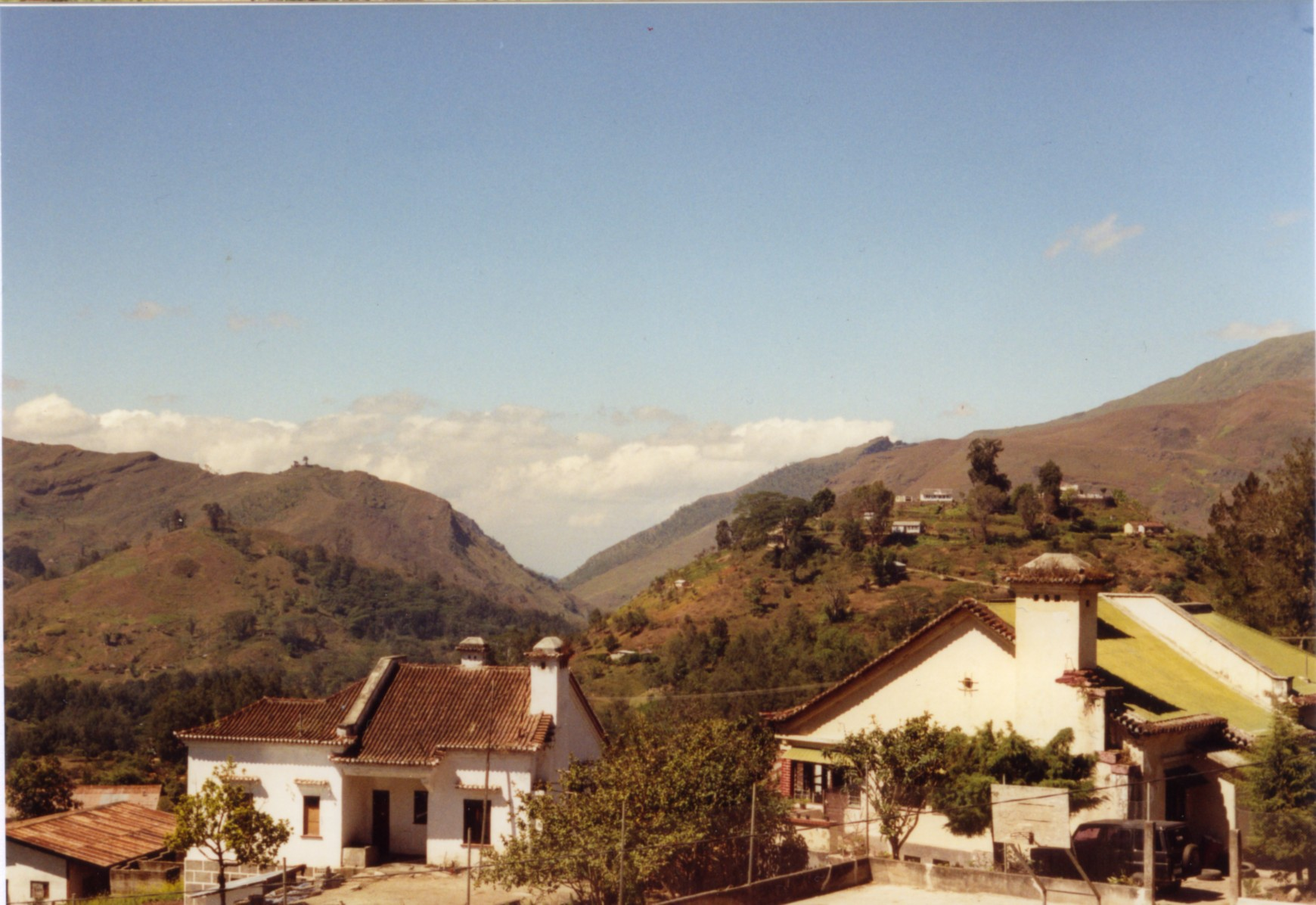 Maubisse